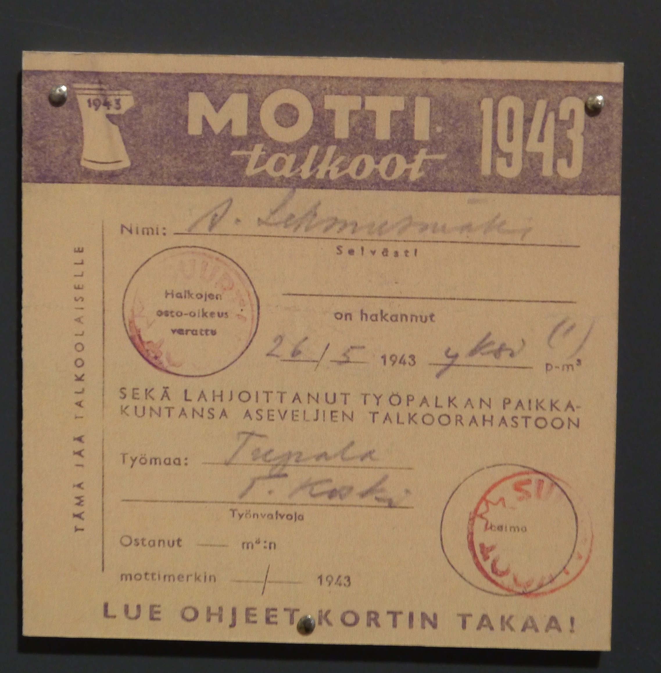 Participant's certificate for voluntary wood cutting campaign "Mottitalkoot" year 1943 during Continuation War in Finland